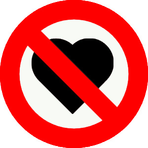 Sign at theme park attractions: forbidden for heart patients.